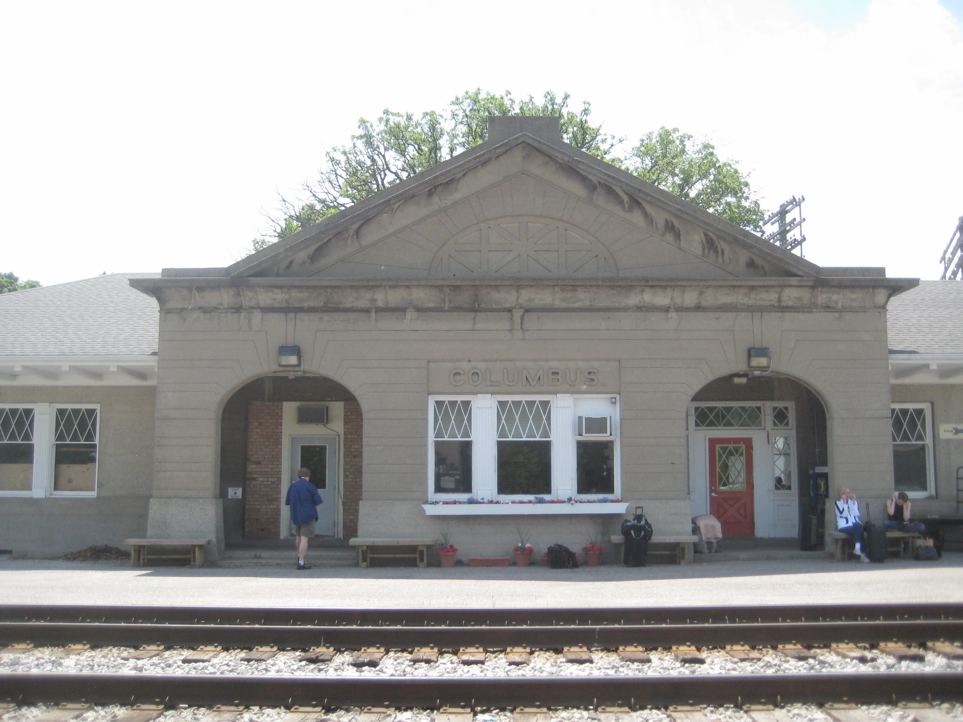 The Amtrak station in Columbus, Wisconsin.